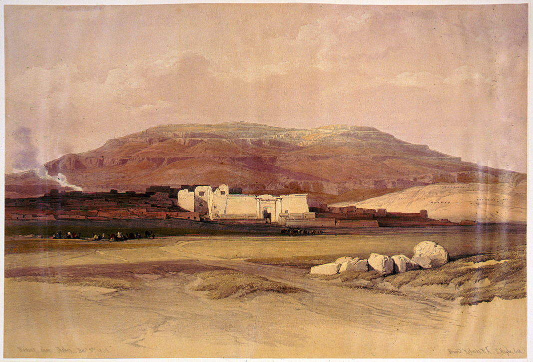 Picture of a print from David Roberts' Egypt & Nubia, issued between 1845 and 1849.